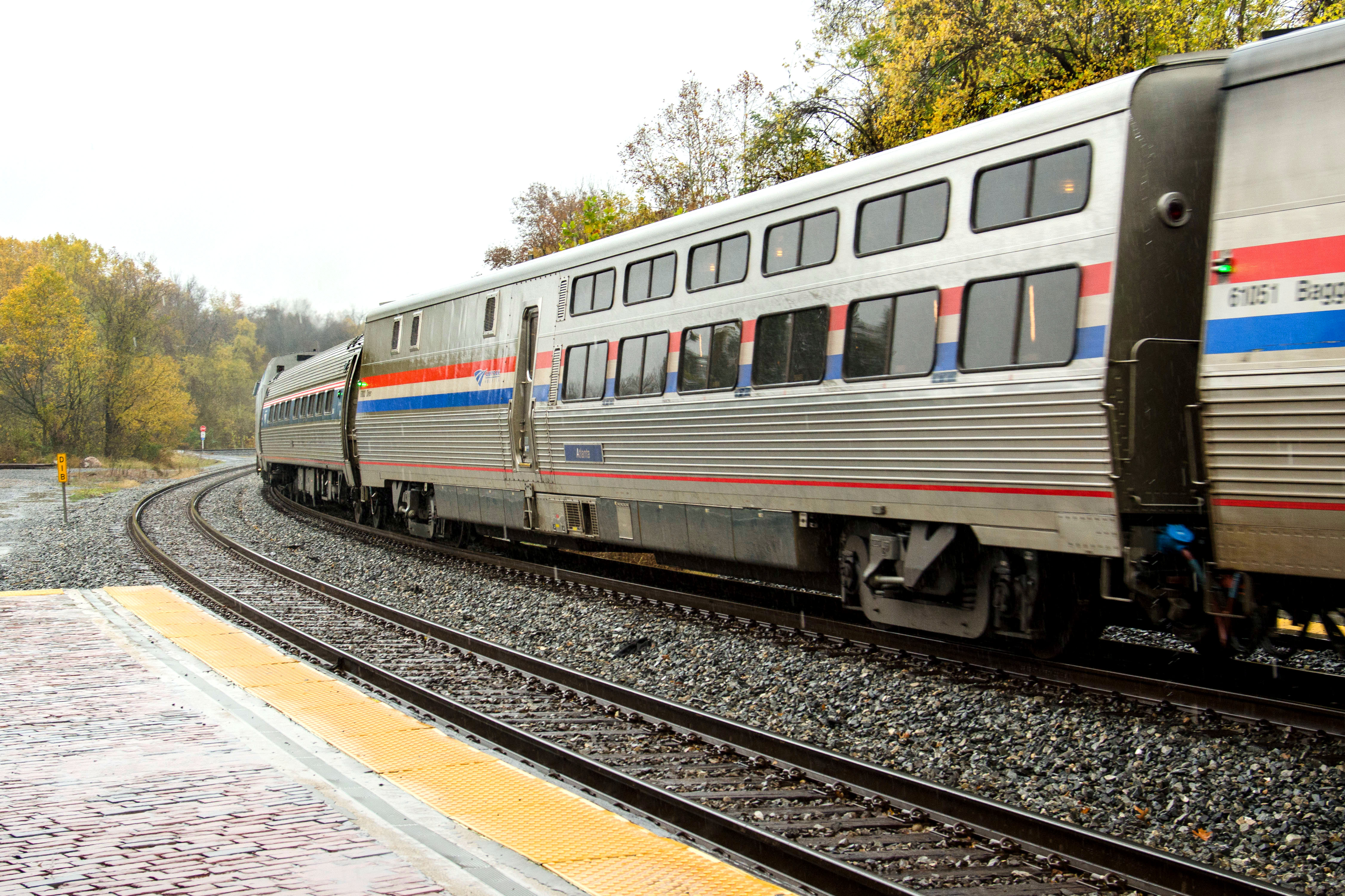 New Viewliner diner Atlanta deadheading on the eastbound Capitol Limited at Point of Rocks in November 2017